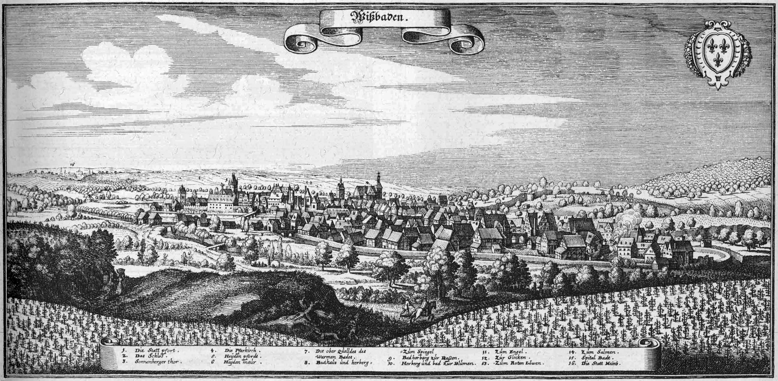 This is a scan of the historical document: Title: Wiesbaden - Topographia Hassiae language: german